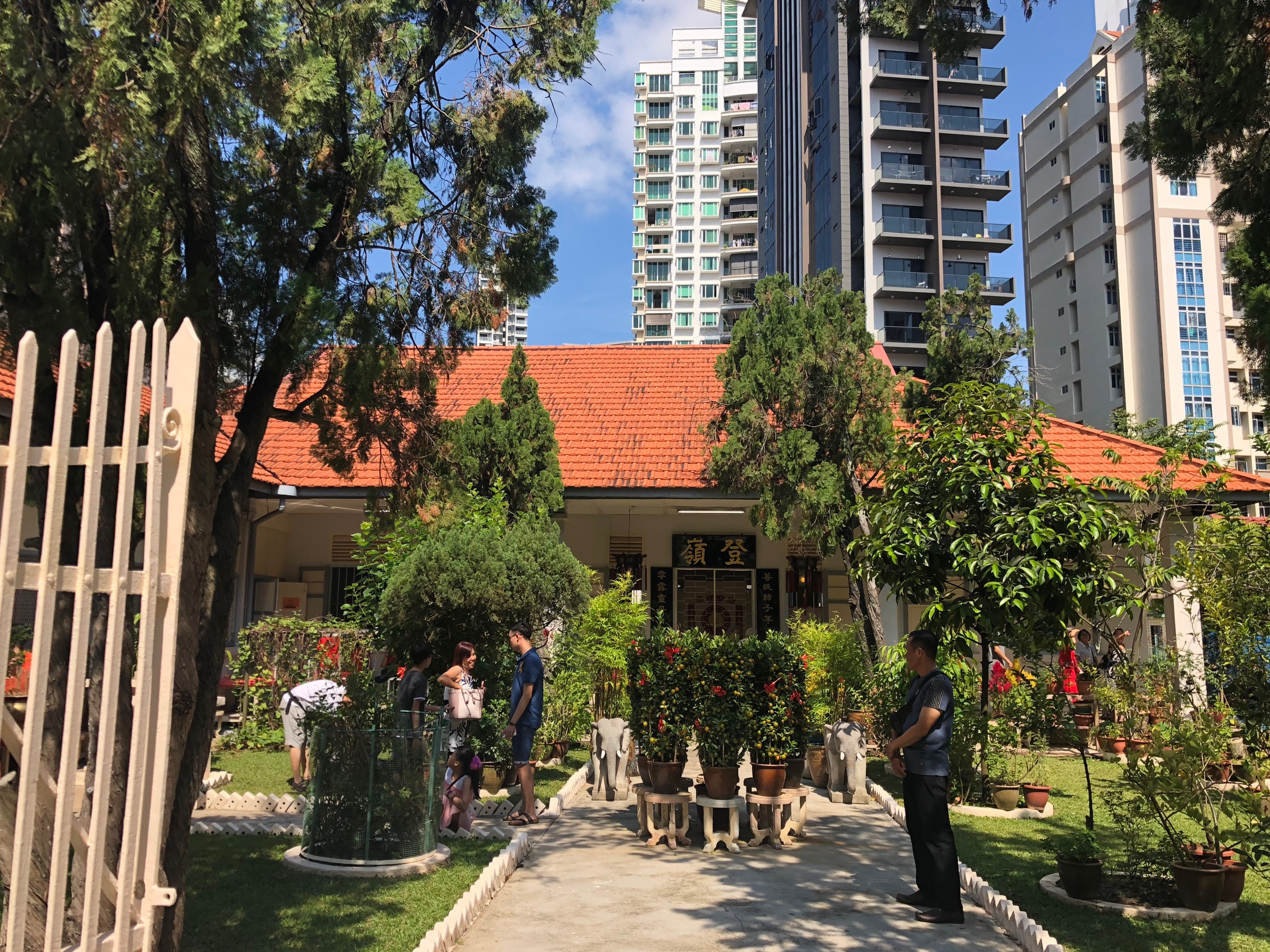 Built in 1926, this building housed the migrant men. Photo taken during the 3rd day of Chinese New Year when it is open to the public